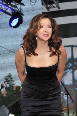 Greek singer Vicky Leandros